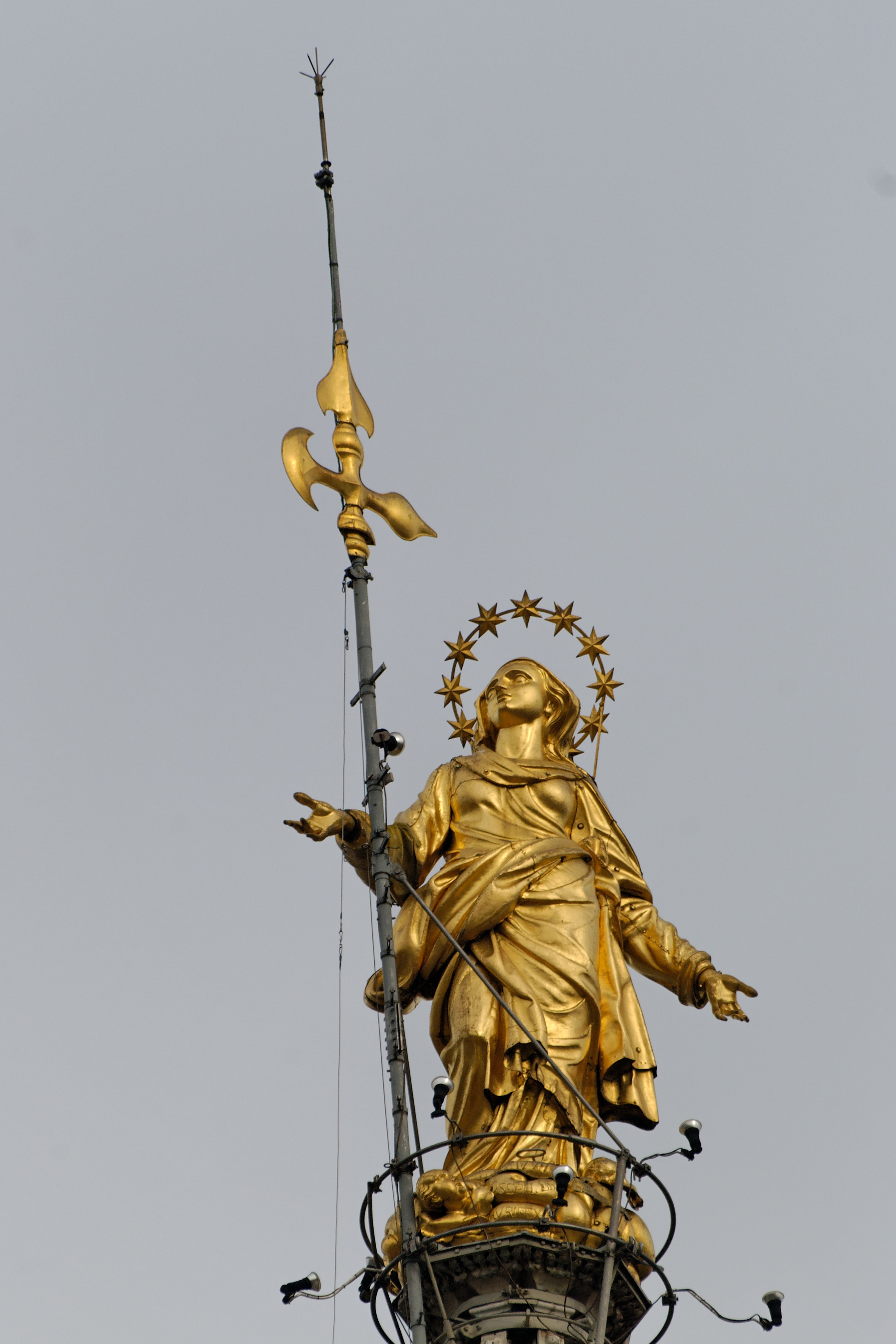 Madonnina